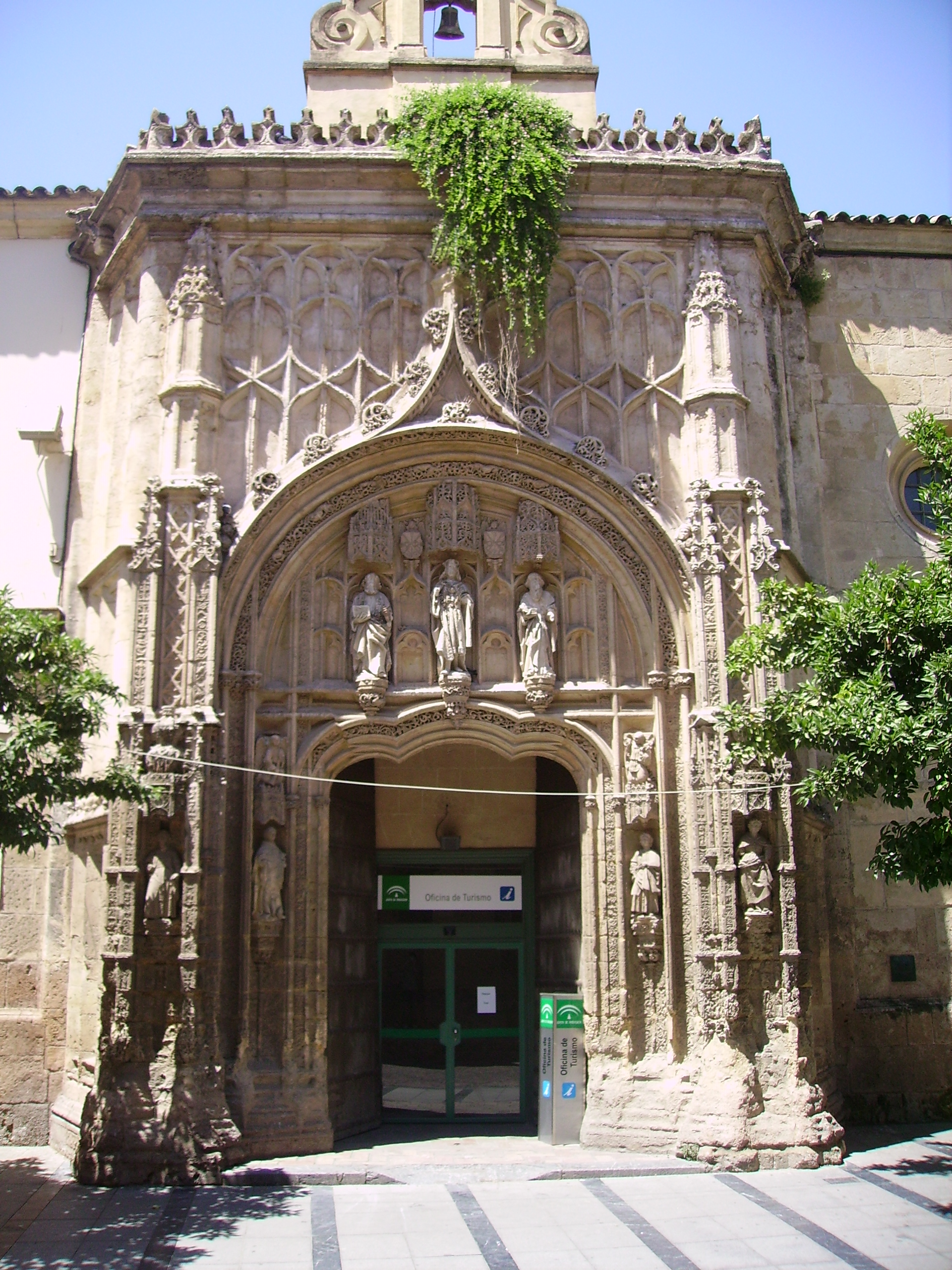 Conference Hall of Córdoba (Spain).